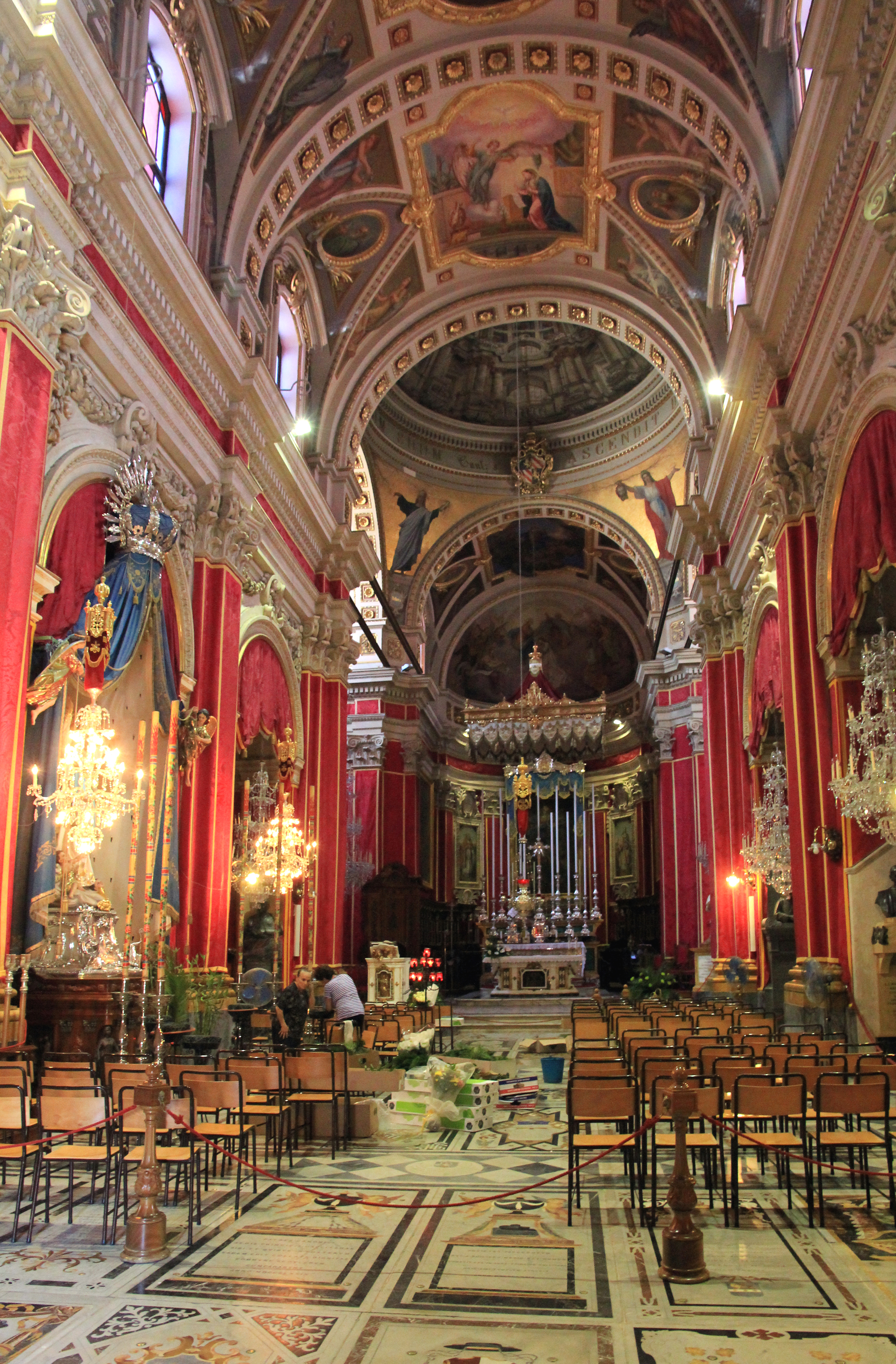 Interior of St. Marija Cathedral in Victoria - capital of Gozo island, Malta